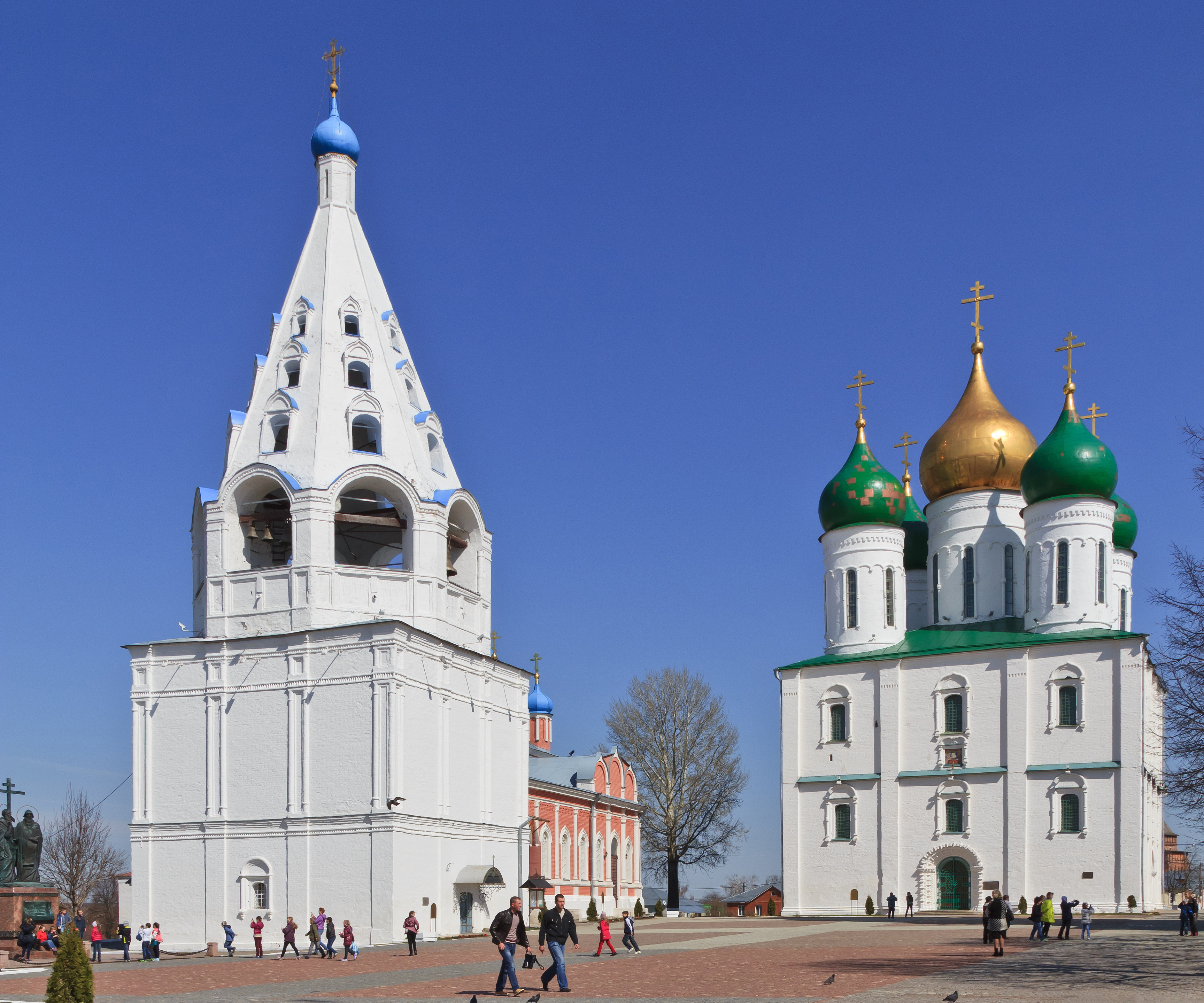 The Cathedral square (Bell tower, and the Assumption Cathedral) in the Kolomna Kremlin. Kolomna, Moscow Oblast, Russia.